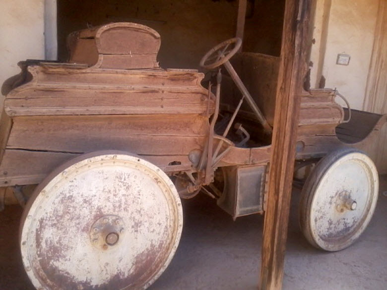 First automobile in Sudan, belonged to the governor general, situated in the Khalifa House Museum, Omdurman, Sudan